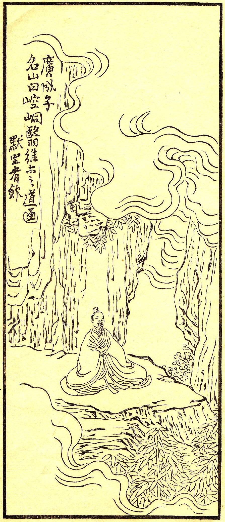 Guangchengzi（Chinese: 广成子）was a ancient Xian(仙人)of China and a character featured within the famed ancient Chinese novel Fengshen Yanyi(封神演義).